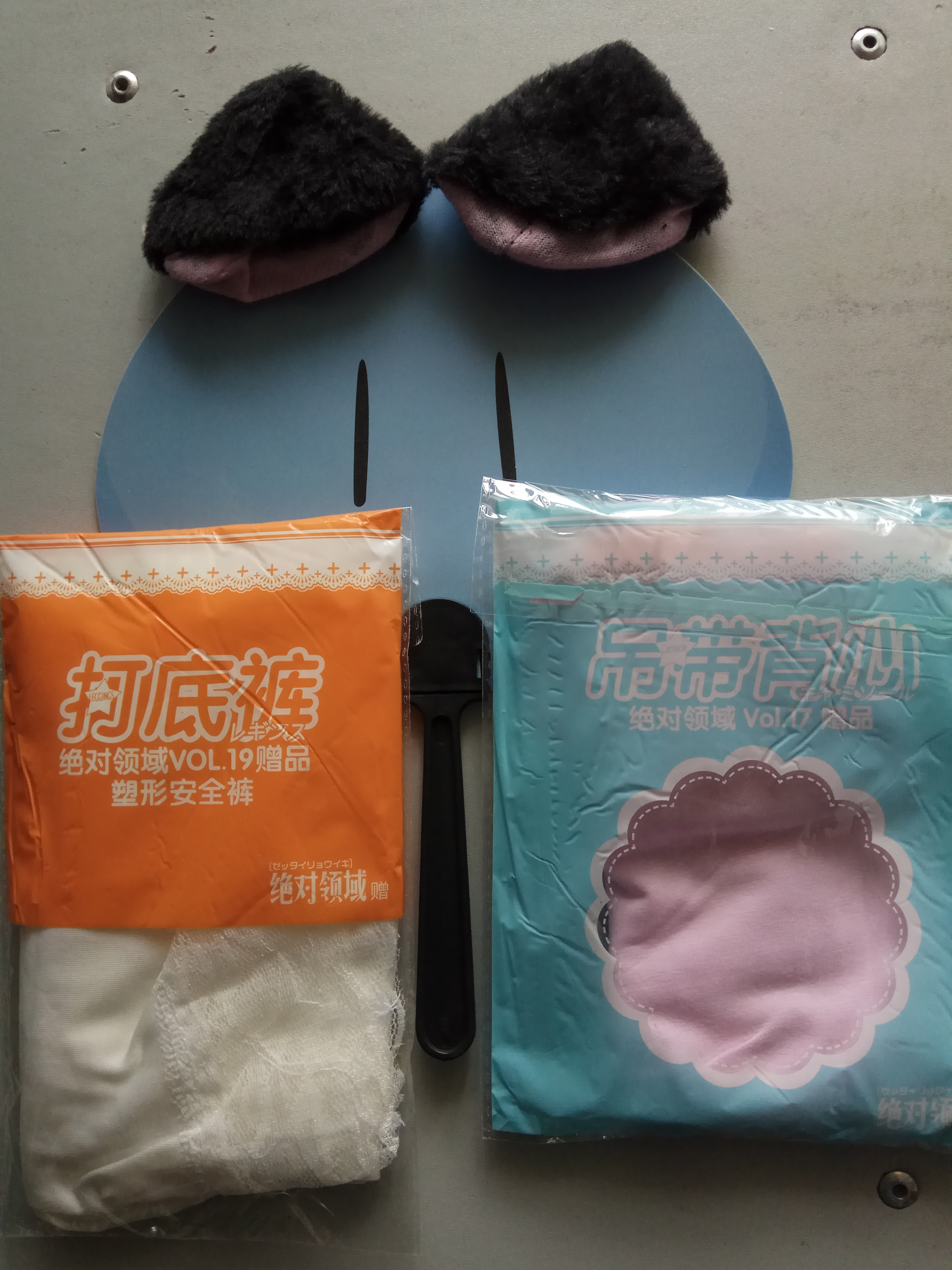 Leggings, a camisole, cat ears hair clips and a CLANNAD dango hand fan, which are free gifts from 绝对领域 magazine. 中文（中国大陆）: 绝对领域杂志赠送的打底裤、吊带背心、猫耳发夹和《CLANNAD》团子扇赠品。